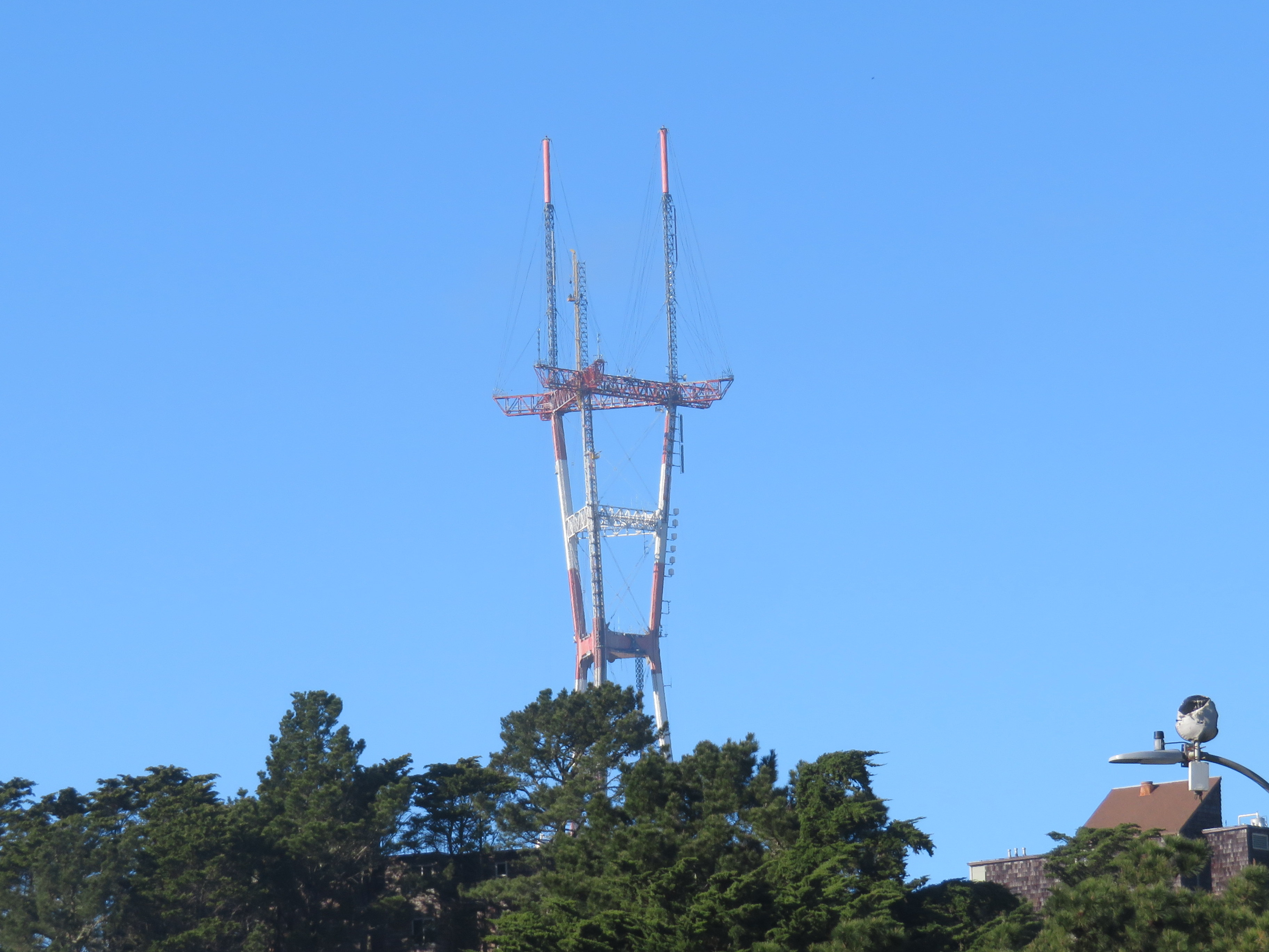 Sutro Tower with one antenna segment removed (for modification for spectrum repacking) in January 2020